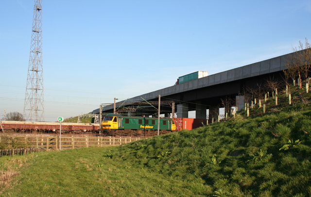 Rail, road and foot The A500 dual carriageway bridge over the railway just to the south of Crewe station, with a freight train emerging. Since the construction of the new dual carriageway, the public footpath from Gresty Road in Crewe to Basford has been diverted to go under the railway bridge rather than over the A500 embankment around 200m west. The tower (left) carries lights to illuminate the adjacent Basford Hall Sorting Sidings